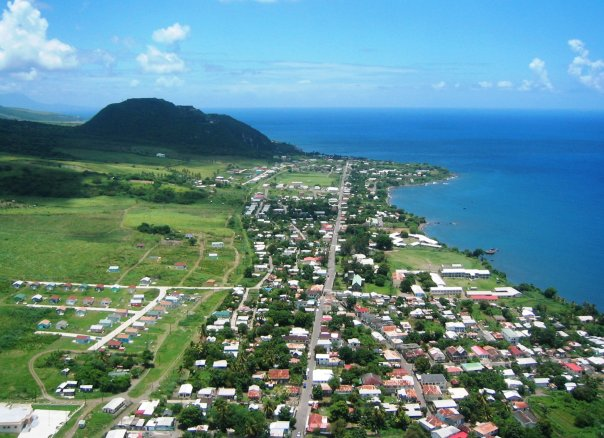 Sandy Point, taken from a helicopter.